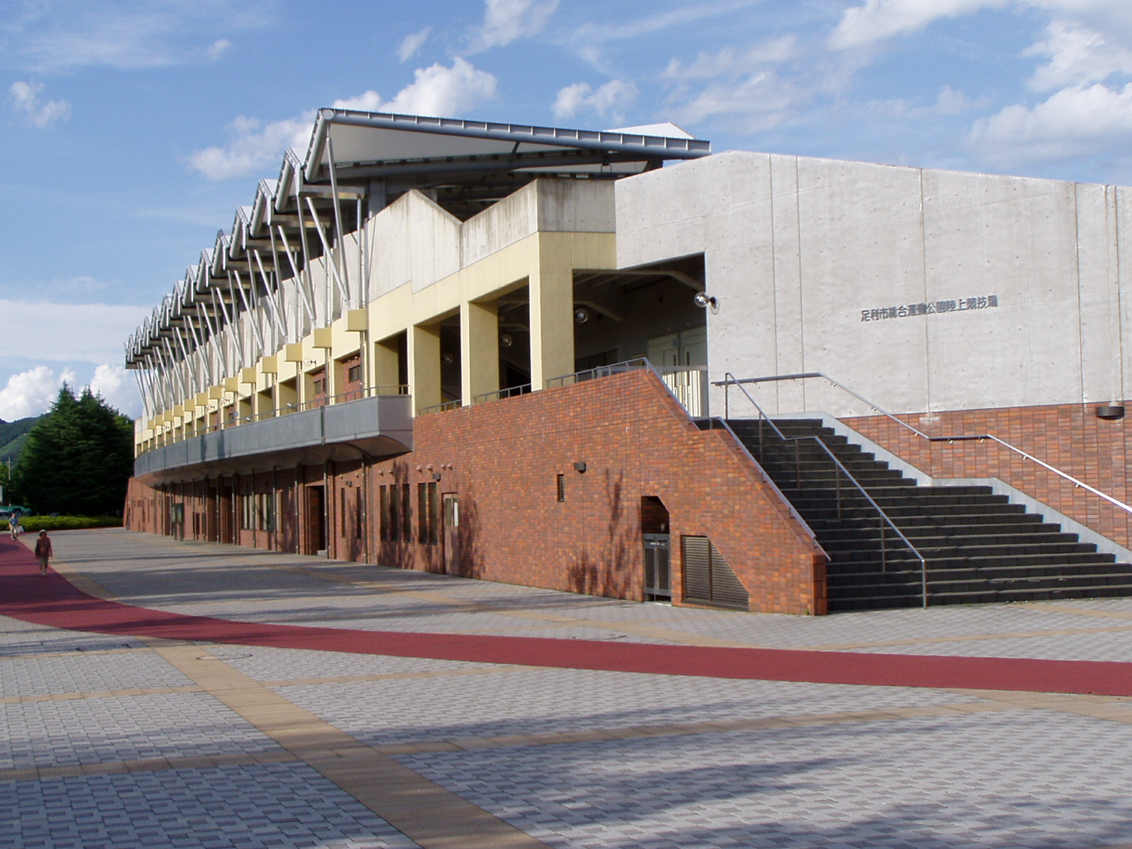 Ashikaga City Sports Park Stadium in Tochigi Prefecture, Japan